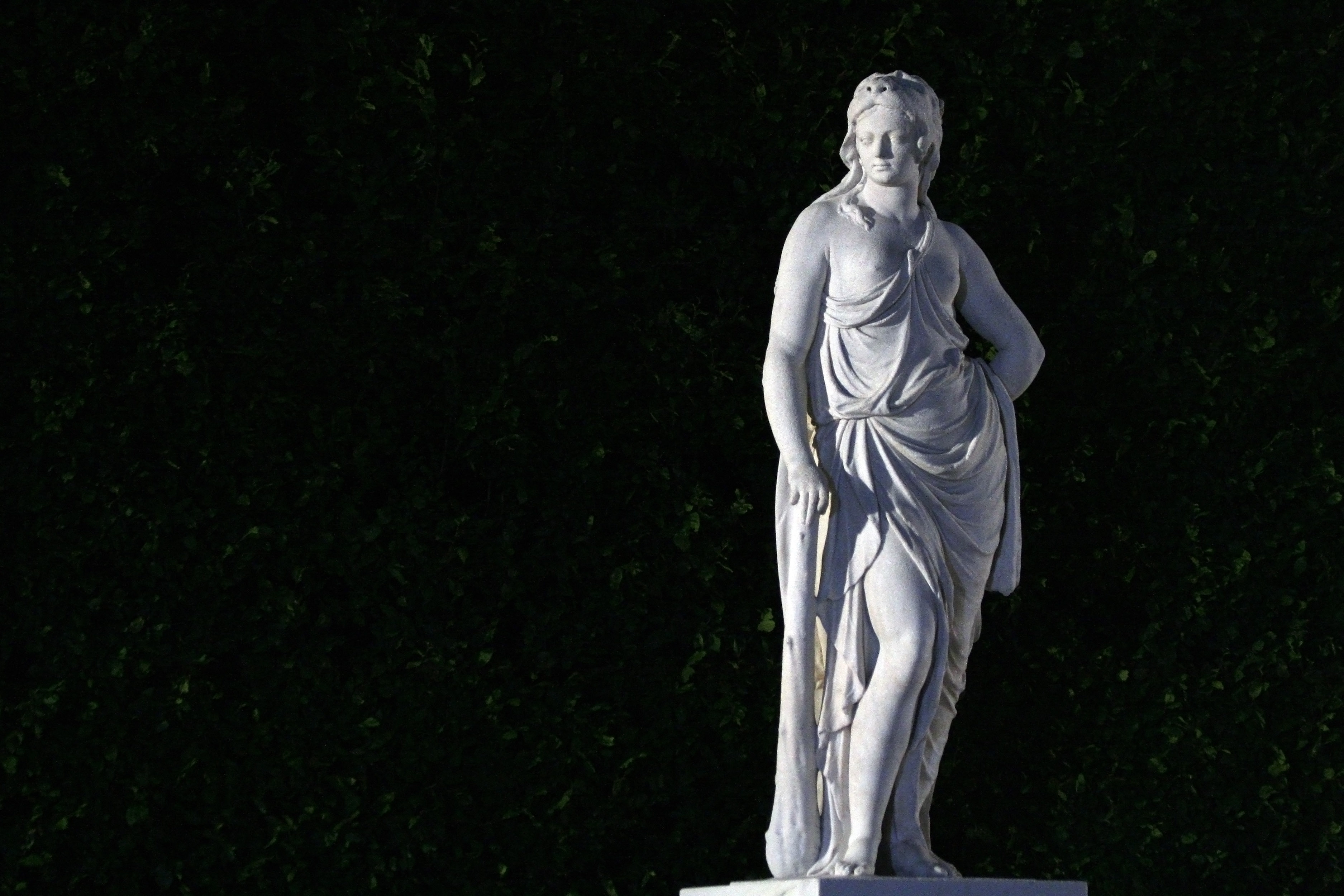 Schönbrunn Palace and Gardens, Vienna, Austria: Statue of Omphale (see also Sculptures in the Schönbrunn Garden) during the Summer Night Concert of the Vienna Philharmonic Orchestra).